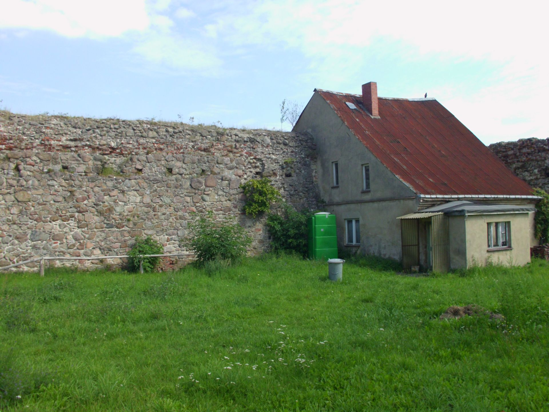 Fortress Oderberg / Bärenkasten (Bear Box) - Last settlers got home from the late 18th century the fort wall